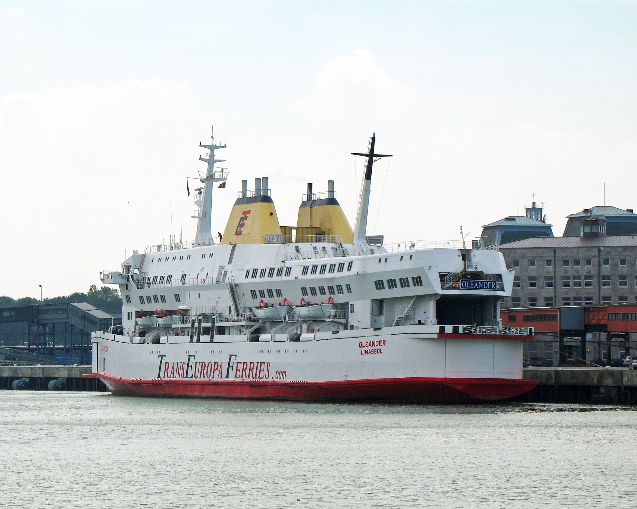 TransEuropa ferry Oleander in the port of Ostend (Belgium)